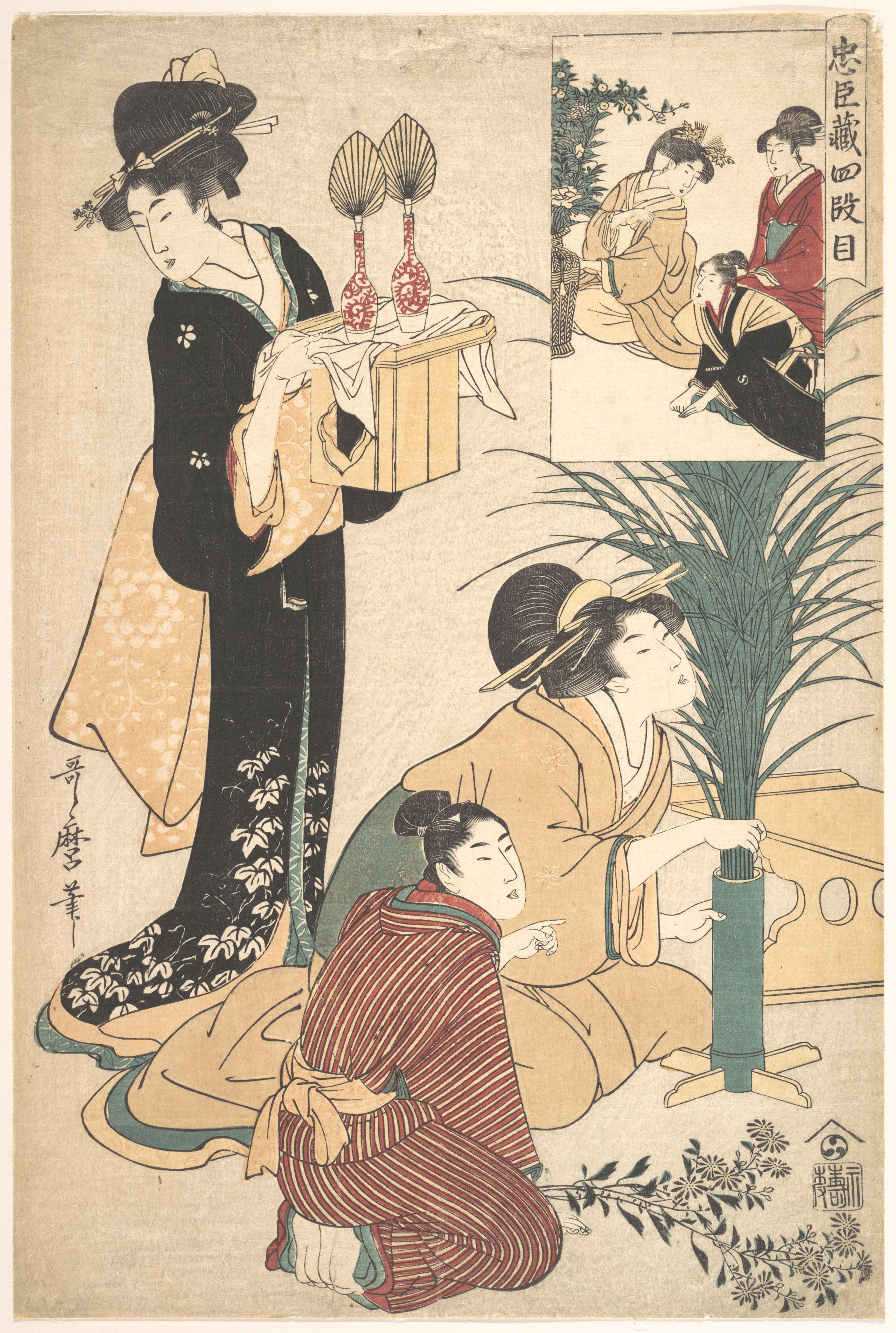 A Woman and a Man Arranging Flowers for the Moon Viewing Festival (Tsukimi) - Act Four in the series ChūshinguraEsperanto: Virino kaj Viro Aranĝas Florojn por la Luna Festo